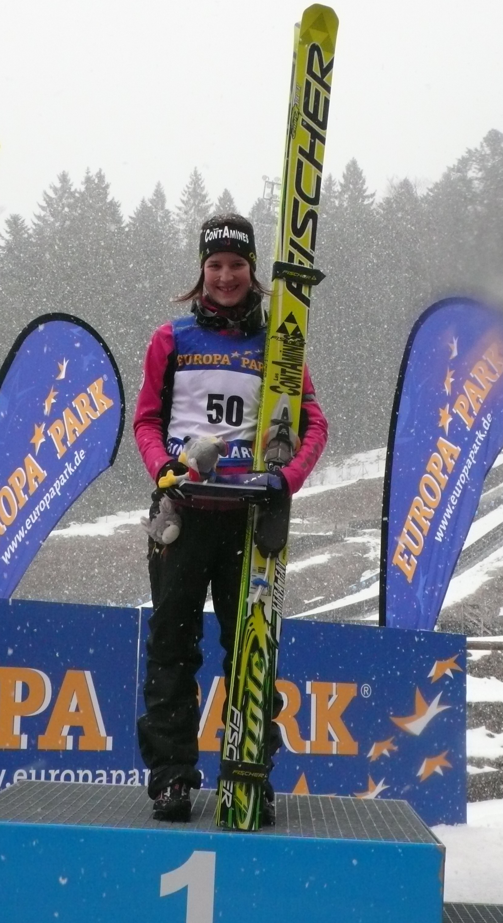 Coline Mattel 1st of the Ski jumping Continental Cup in Hinterzarten on the 2011-01-12, second competition.